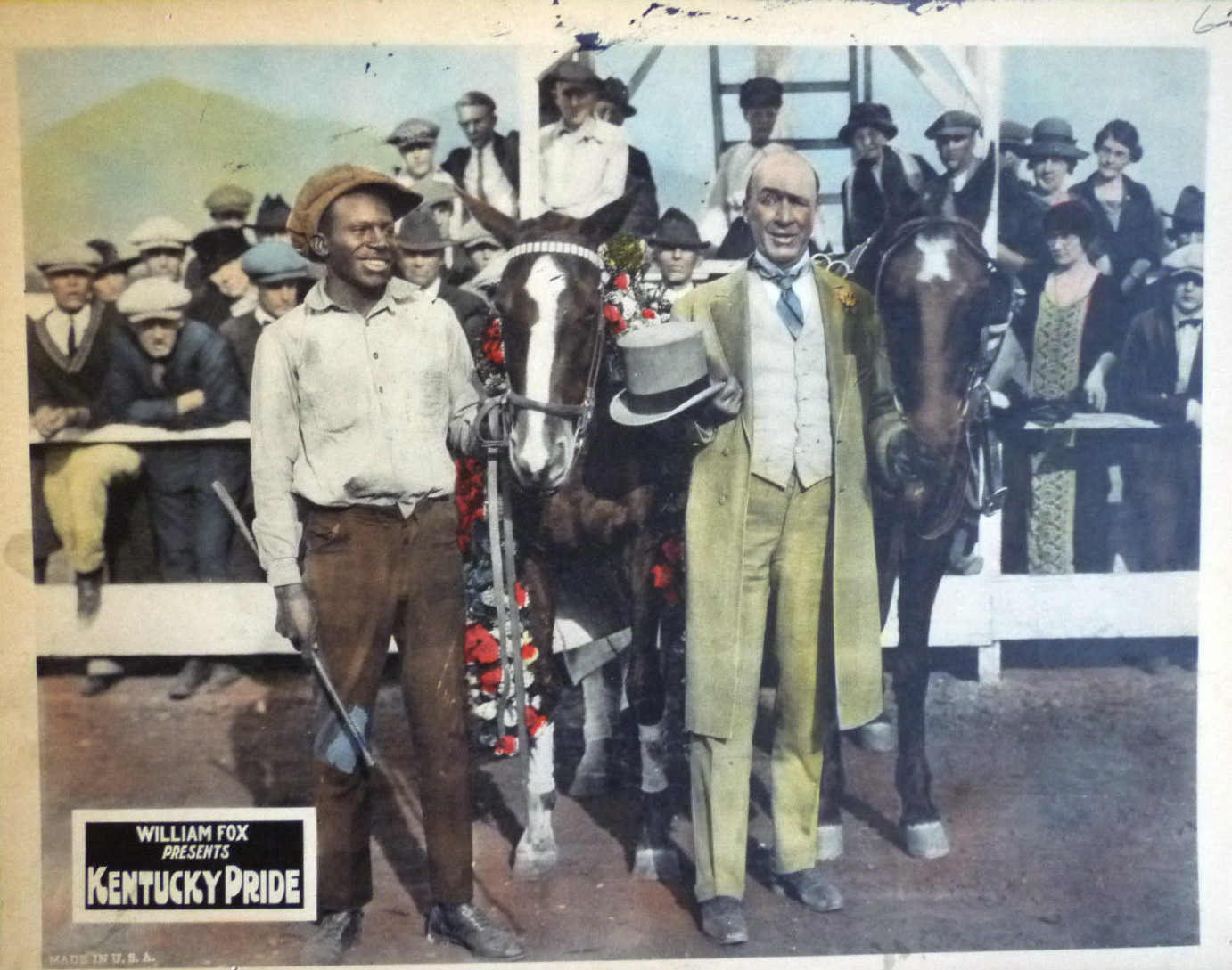 Lobby card for the American drama film Kentucky Pride (1925).